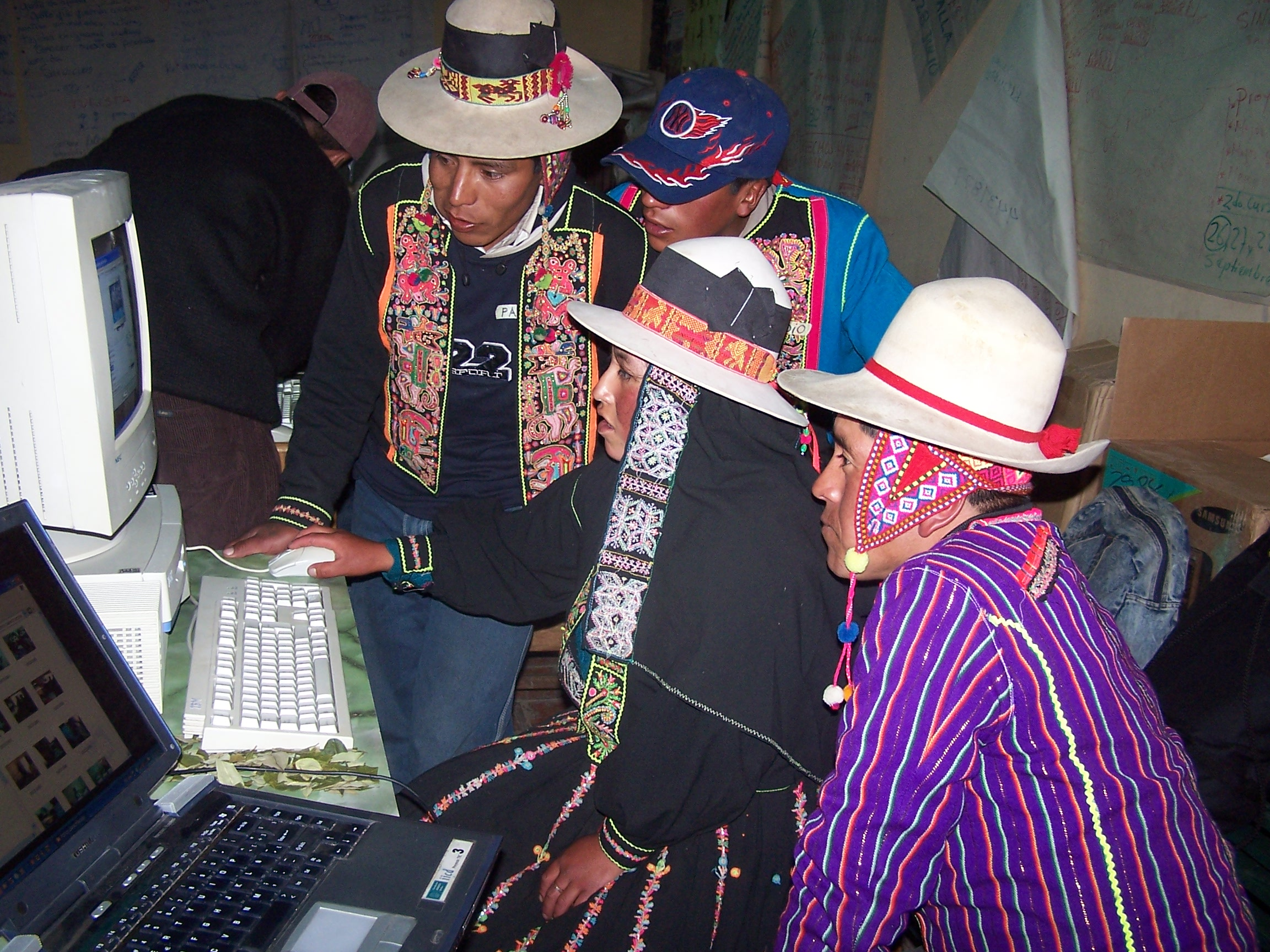 Group of people from Bolivian indigenous communities use computers to learn more about organic agriculture and the sustainable use of natural resources among farmer communities.